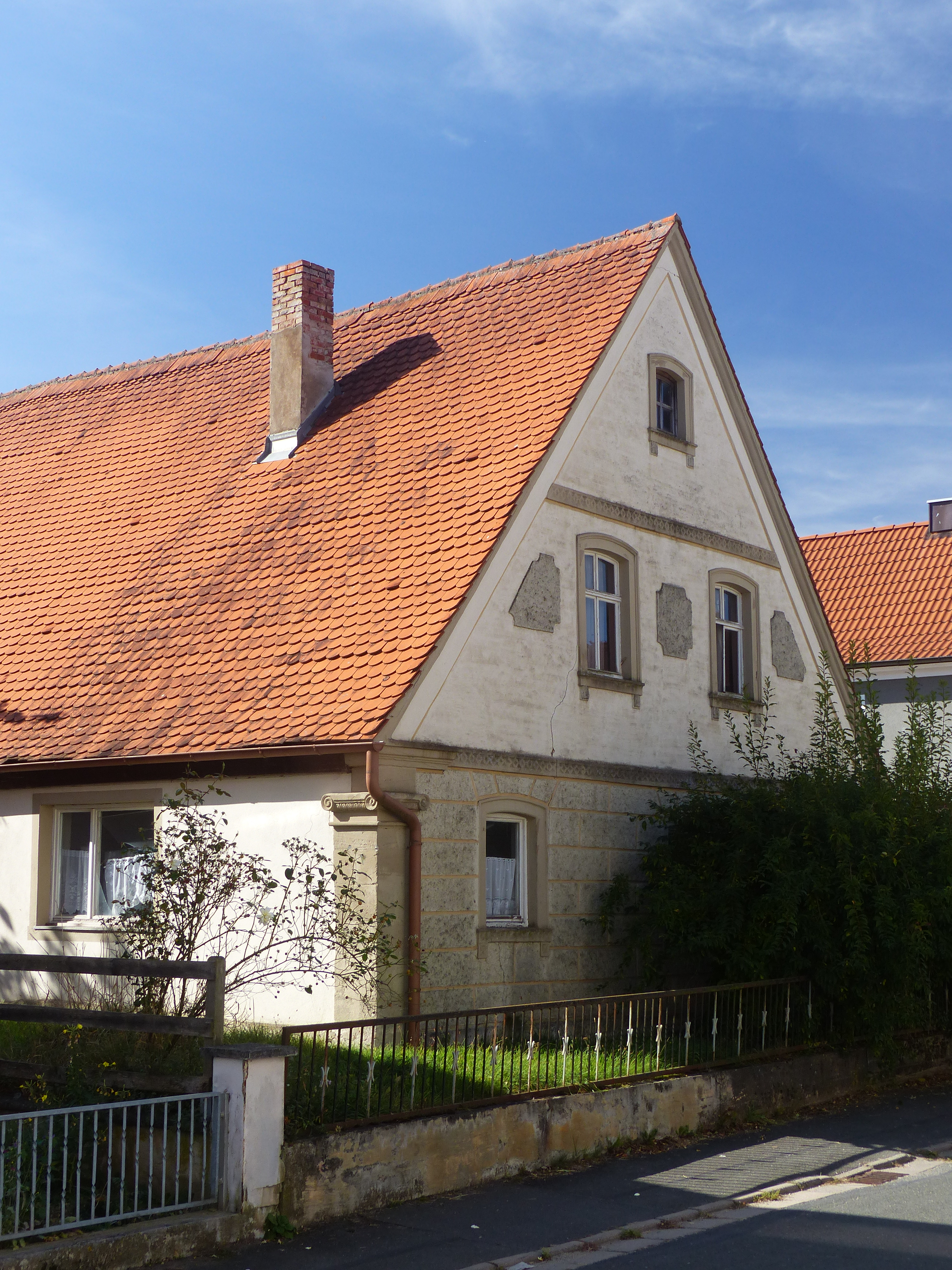 A farmhouse in the parish village Schnaid, a district of the municipality of Hallerndorf.